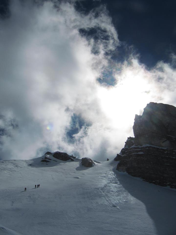 Greece mountain Athamanika - peak Roca. October 2018.Winter Mountain School of Mountaineering-EOS Ilioupolis